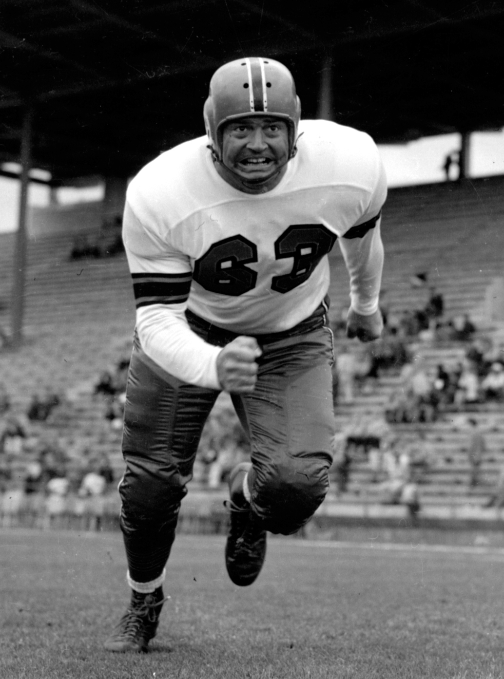 Arnie Weinmeister. B.C. Lion number 63 VPL Accession Number: 84780C Date: July 10, 1954 Photographer/Studio: Jones, Art Content: Part of a series 84780+ (63 photos) Topic: Football players Portrait Stadiums Organization: B.C. Lions Football Club Empire Stadium (Vancouver, B.C.) Location: British Columbia - Vancouver - Hastings-Sunrise - Hastings Community Park More information on our historical photograph collection